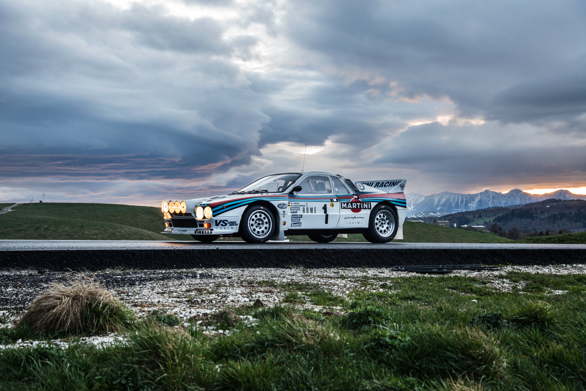 The Lancia 037 Rally chassis 305